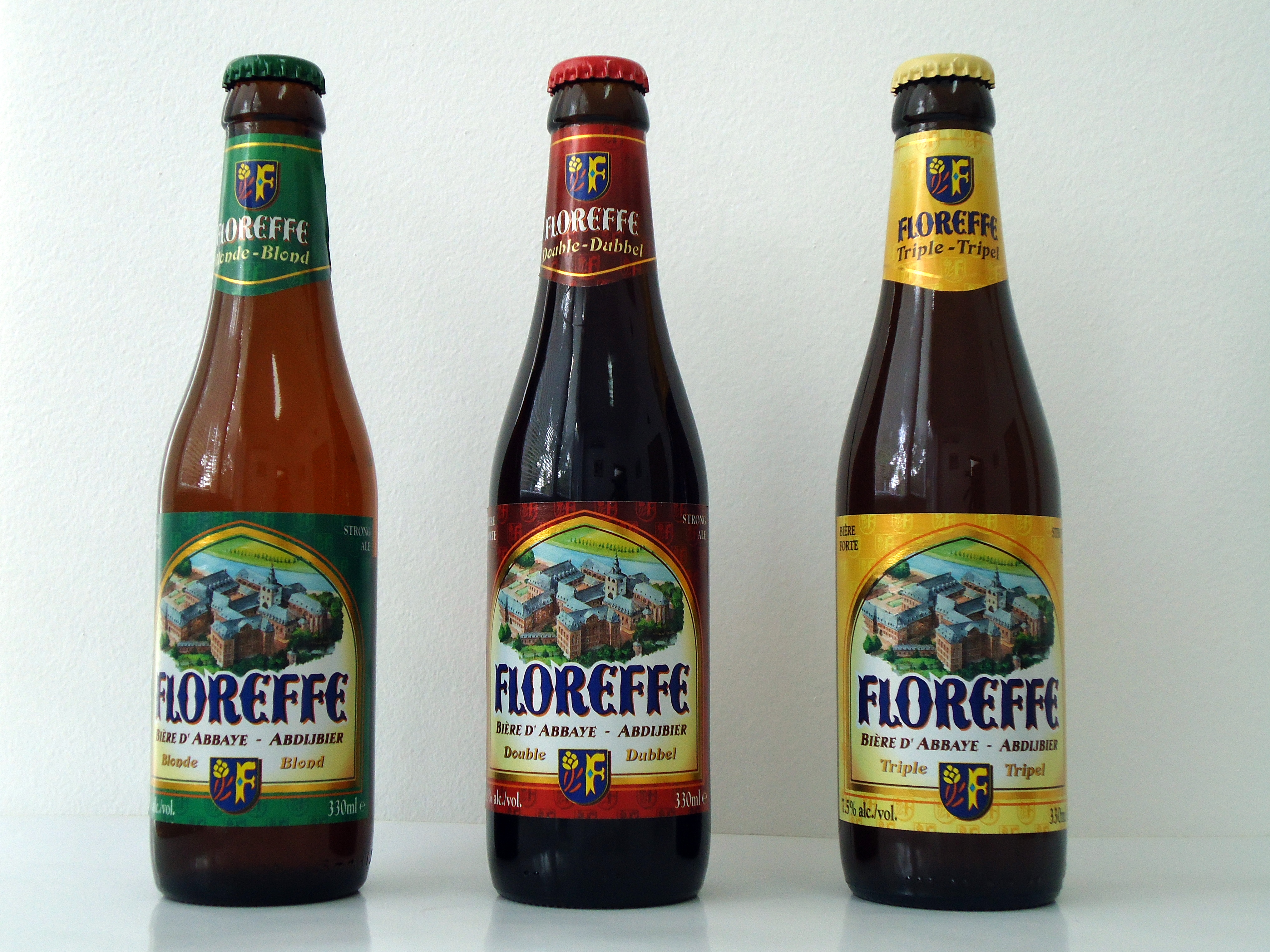 Floreffe beers